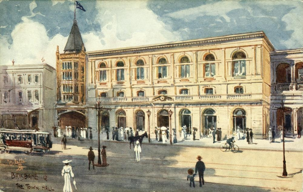 Hand coloured postcard featuring a street scene in front of Brisbane Town Hall. A tram competes with pedestrians and horses in the street. Gaslights are spaced at intervals. The building occupying most of the scene is the Brisbane Town Hall. The narrow building to the left with a tower with a flag flying is the Colonial Mutual Chambers. Title: Early street scene featuring Town Hall, Brisbane, ca. 1895 Author/Creator: Fullwood, Albert Henry, 1863-1930 Subjects: official buildings ; buildings, structures & establishments ; architectural features ; street scenes ; women's clothing & accessories ; men's clothing and accessories ; postcards ; Brisbane (Qld.) Coverage: Brisbane, Queensland; Lat/long: -27.46888,153.022827 Publisher: John Oxley Library, State Library of Queensland Is Part Of: Accession number: 6418 Collection reference: 6418 Raphael Tuck & Sons Oilette Coloured Postcards Summary/Contents: Hand coloured postcard featuring a street scene in front of Brisbane Town Hall. A tram competes with pedestrians and horses in the street. Gaslights are spaced at intervals and a tower with a flag flying can be seen next to Town Hall. Date: ca. 1895 Description: Digital format: image/jpeg ; Original format: postcard : hand coloured Rights: Copyright expired. For further information Record number: 243944 Link to digital item: Link to this record